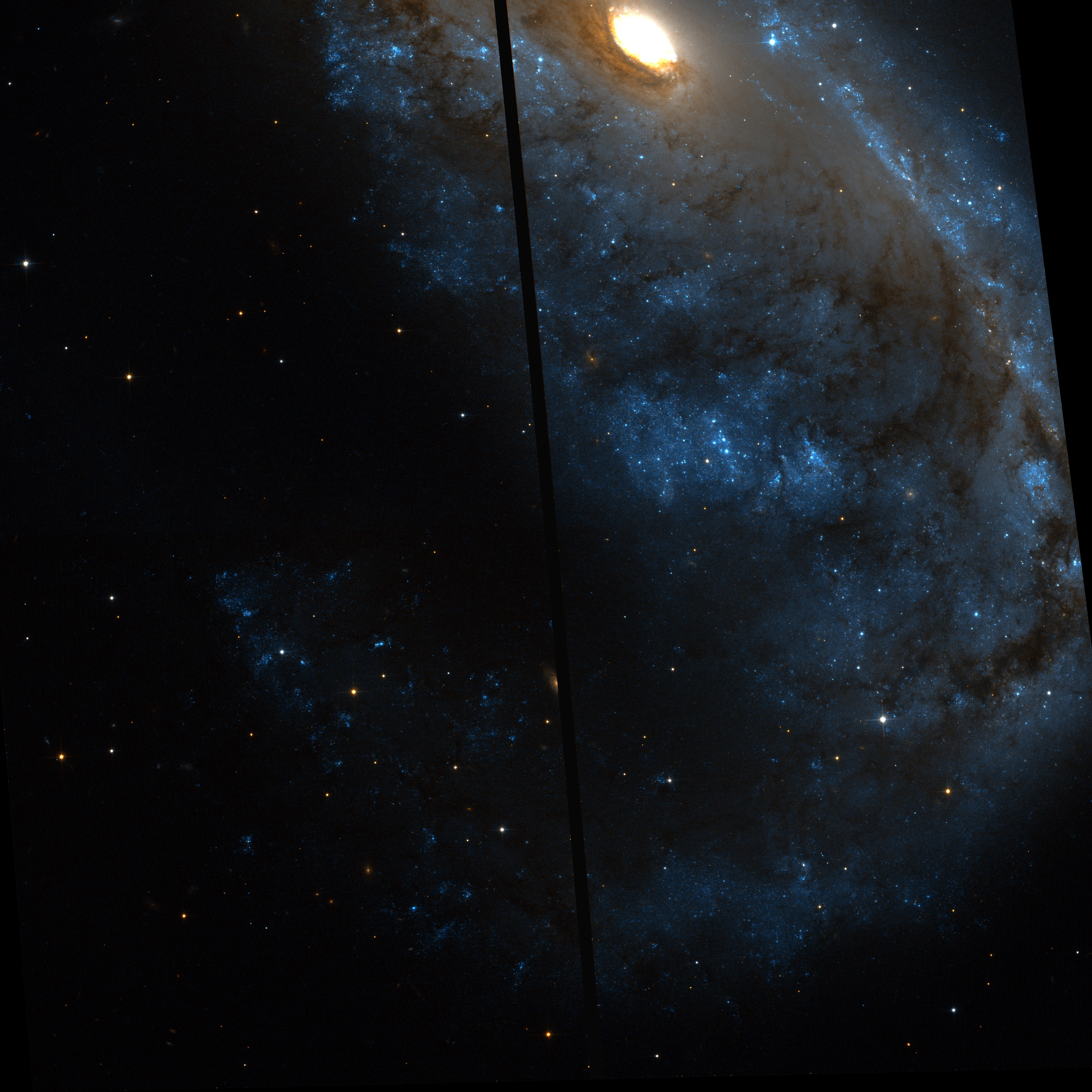 NGC 2442 core and south wing close up by Hubble Space Telescope 3.4′ view The image created using WikiSky's image cutout tool out of Hubble Space Telescope data. Credit: NASA//STScI/WikiSky Source: [1] Related images NGC 2442 on DSS2